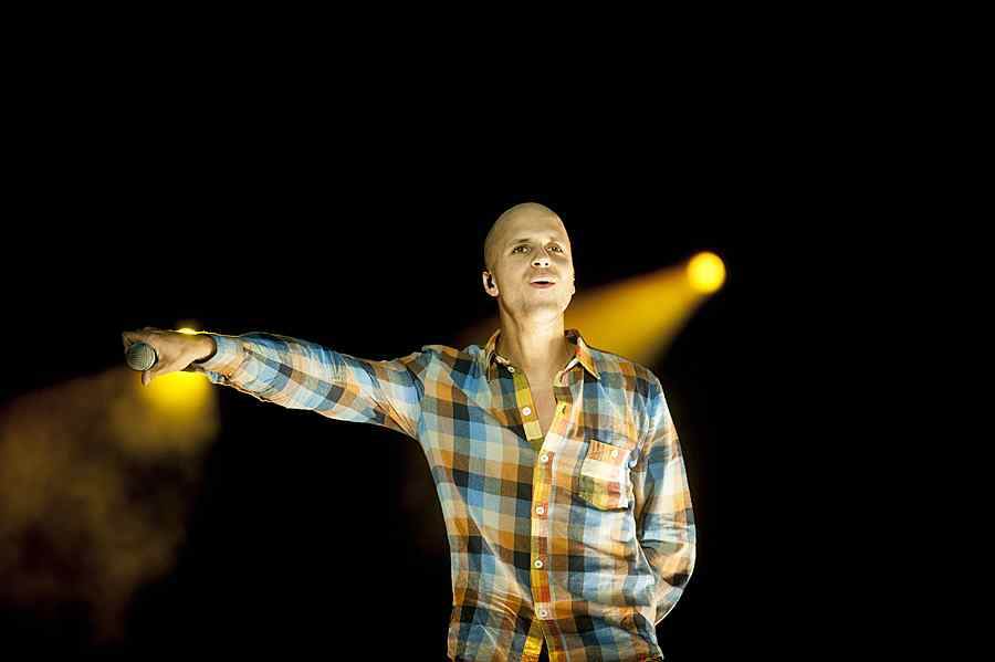 Official picture from Red Light Management